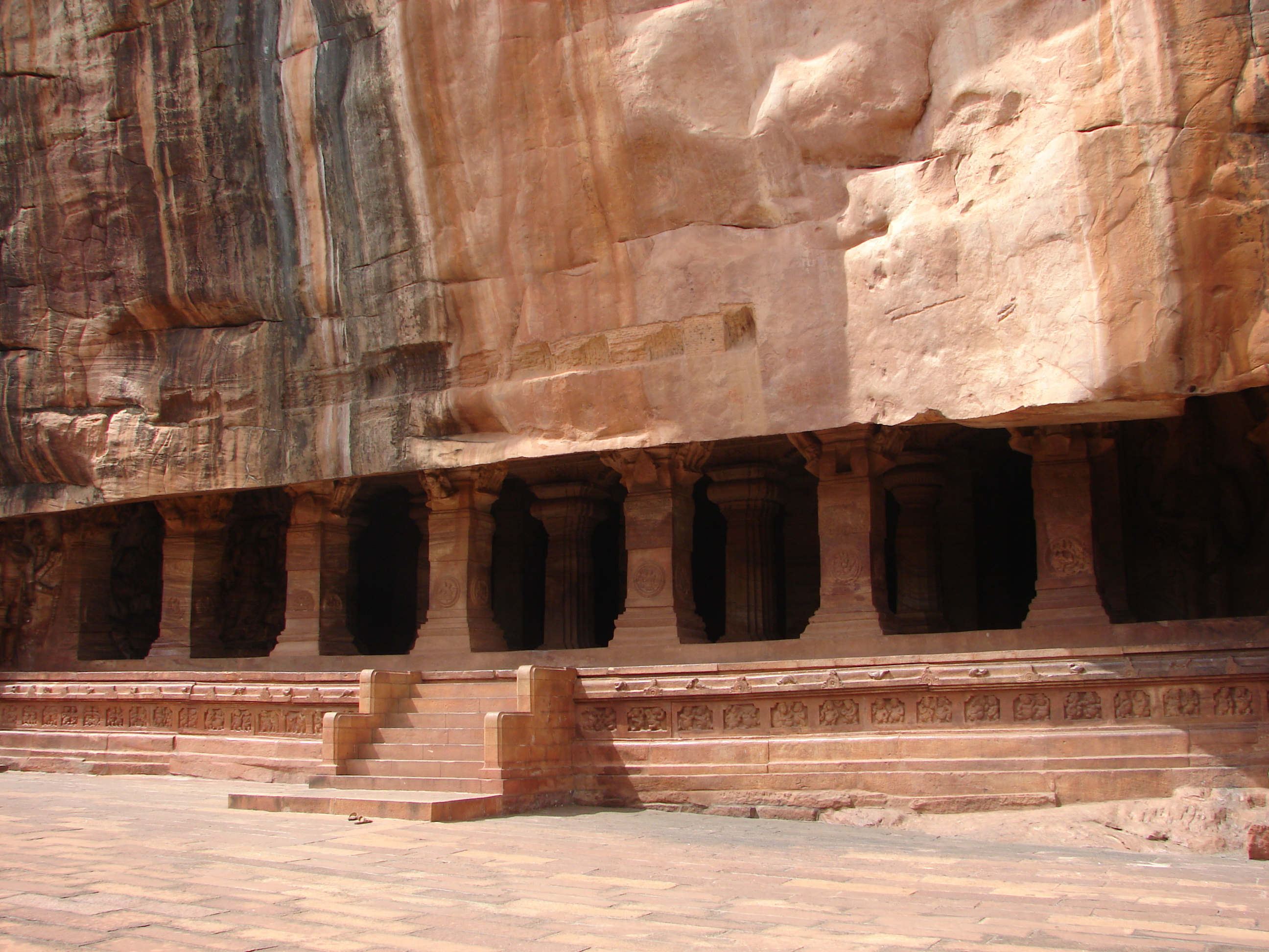 Cave temple no. 3 at Badami, Karnataka, India is a Vaishnava temple and was built by the Badami Chalukyas in 578 CE during the reign of King Kirtivarman I.